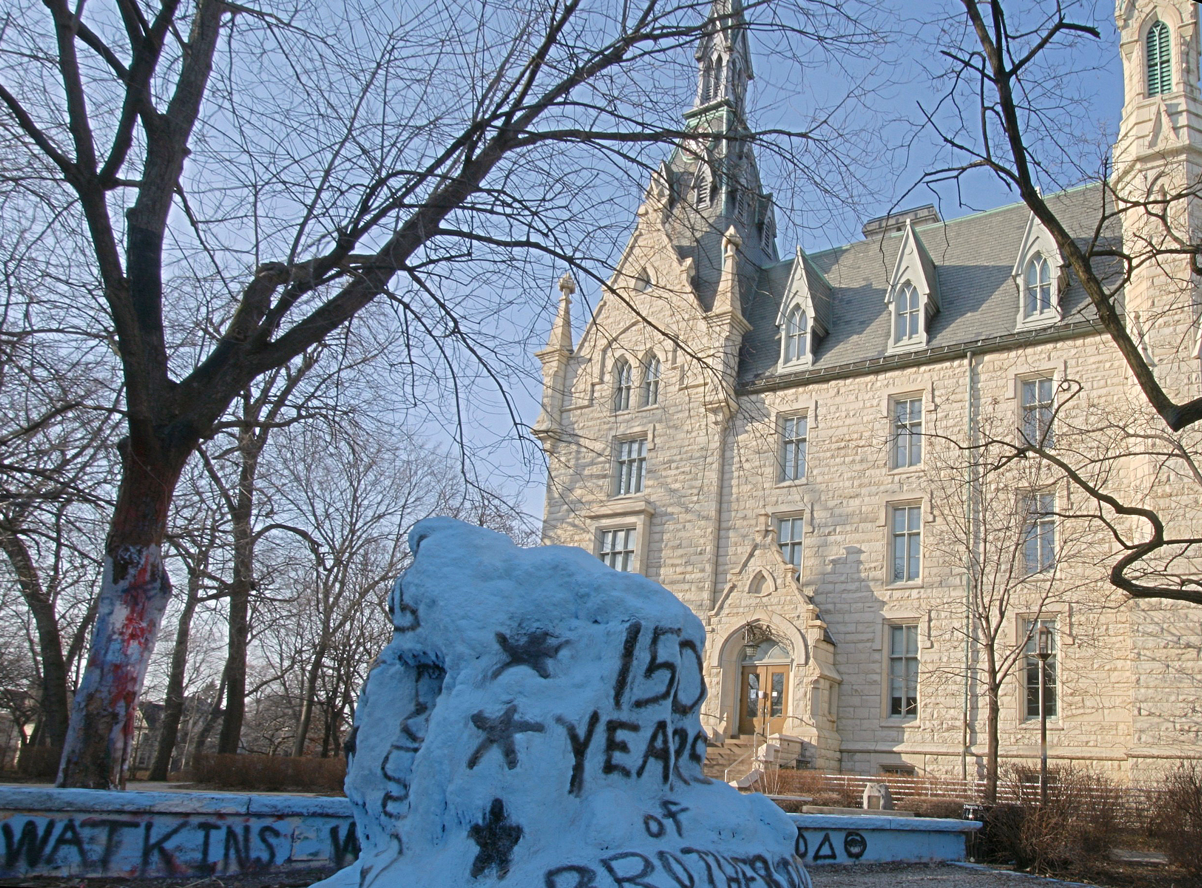 The Rock at Northwestern University with University Hall in the background